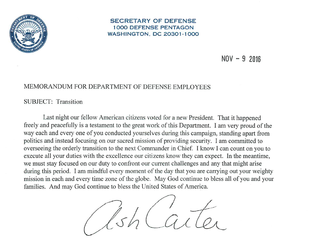 Memo from Ash Carter on 9NOV2016